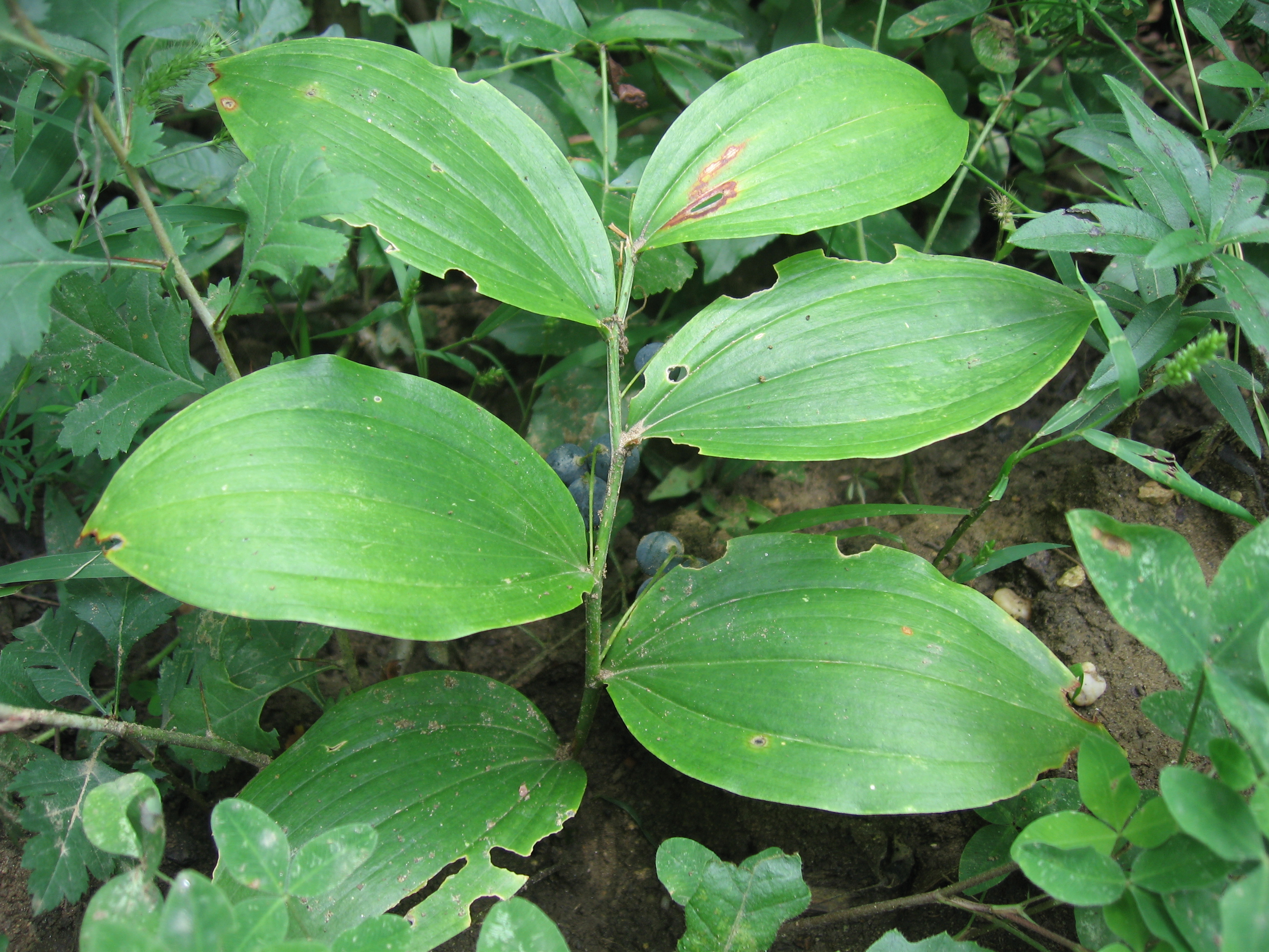 Polygonatum latifolium with fruits